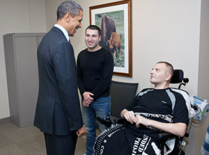 President Barack Obama talks with LTC Alex Tugushi, a battalion commander of the Georgian forces stationed with U.S. Marines in Helmand Province in Afghanistan, during a visit to Walter Reed National Military Medical Center in Bethesda, Md., March 2, 2012. Tugushi's cousin, Alexi Gogrichiani, is also pictured.